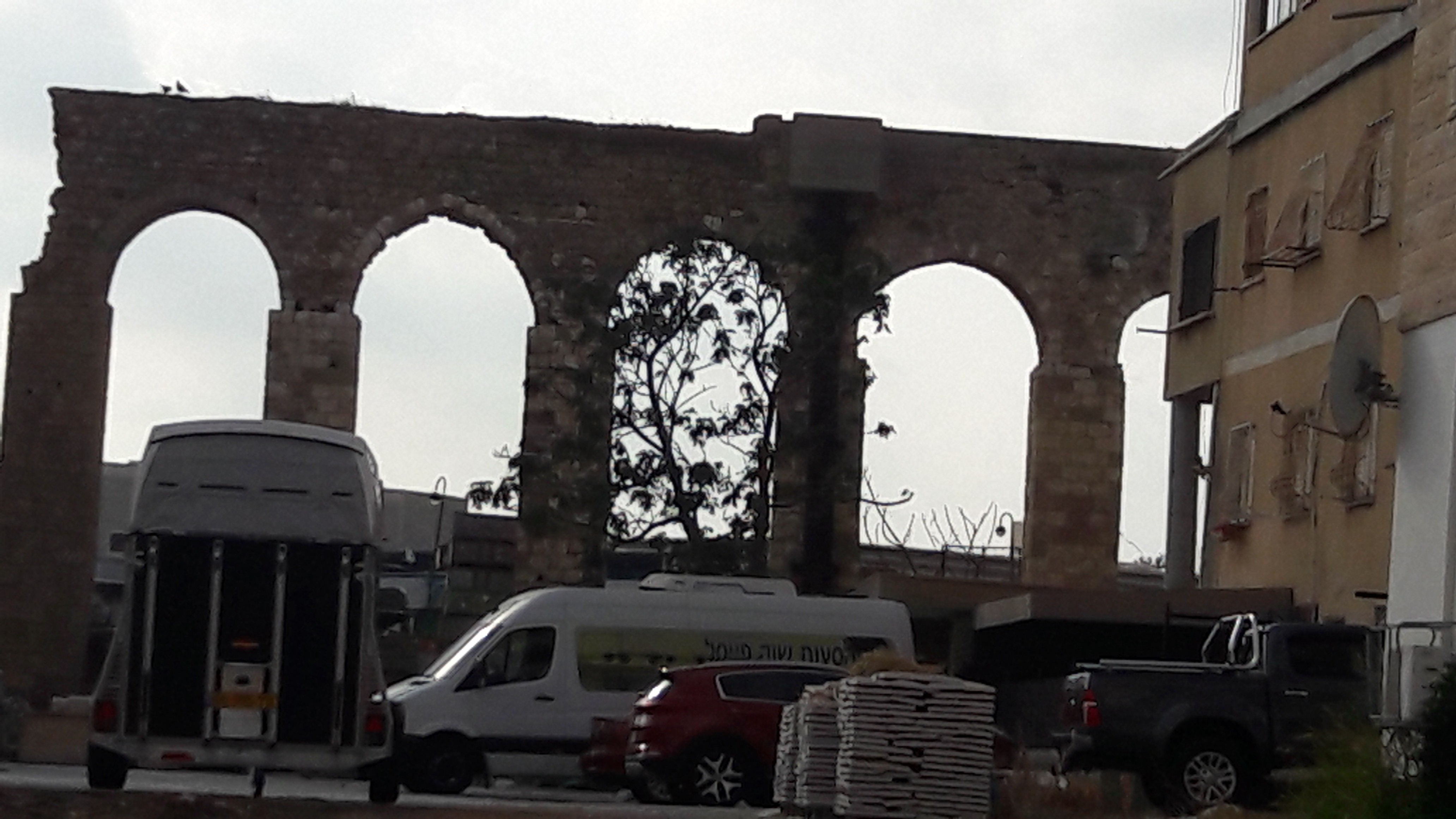 The Aquaduct in Mzra'a